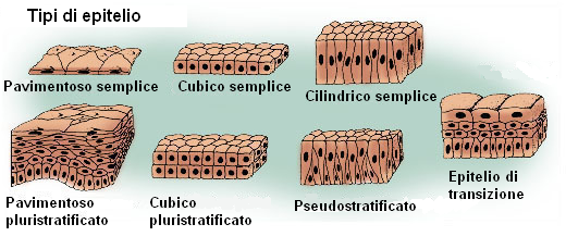 The different kinds of epithelia